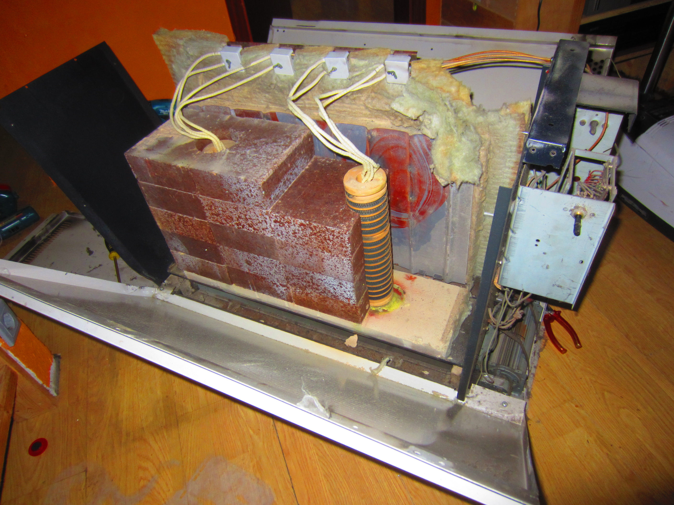 dismantled storage heater